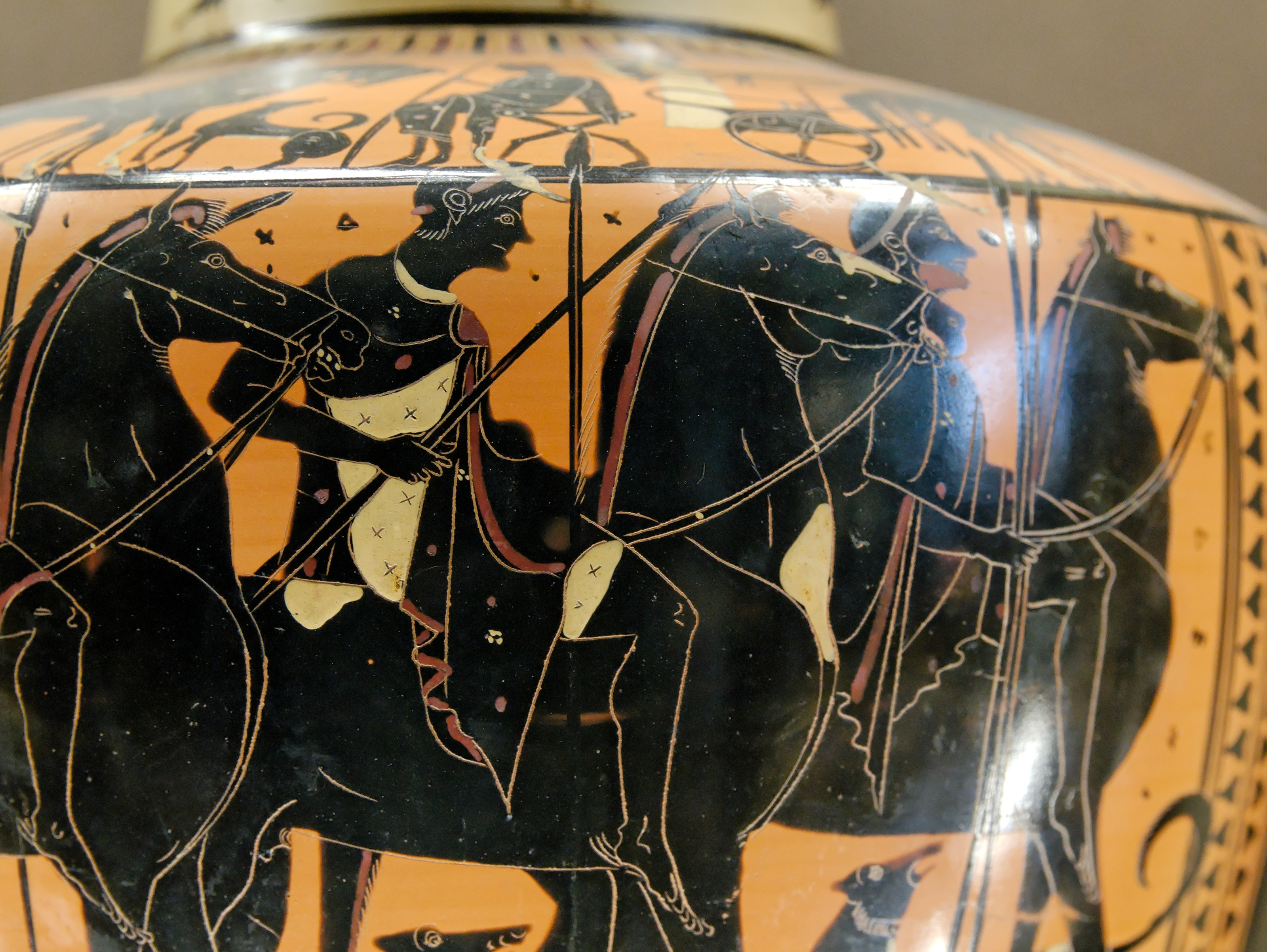 Riders. Belly of an Attic black-figure hydria, ca. 510–500 BC. From Vulci.